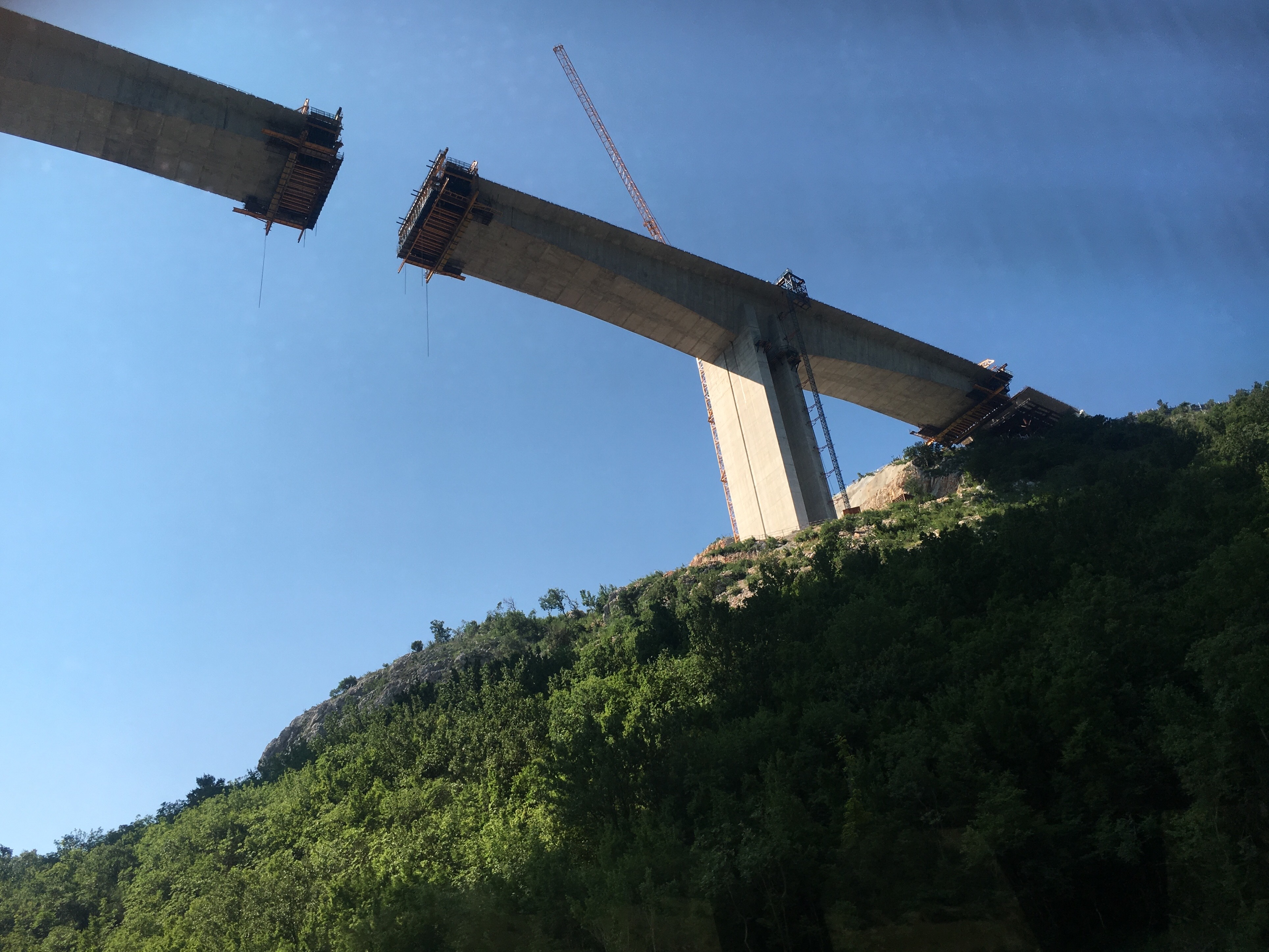 The bridge construction site at Morača valley, north of Podgorica (Montenegro) - part of future Bar-Belgrade motorway.